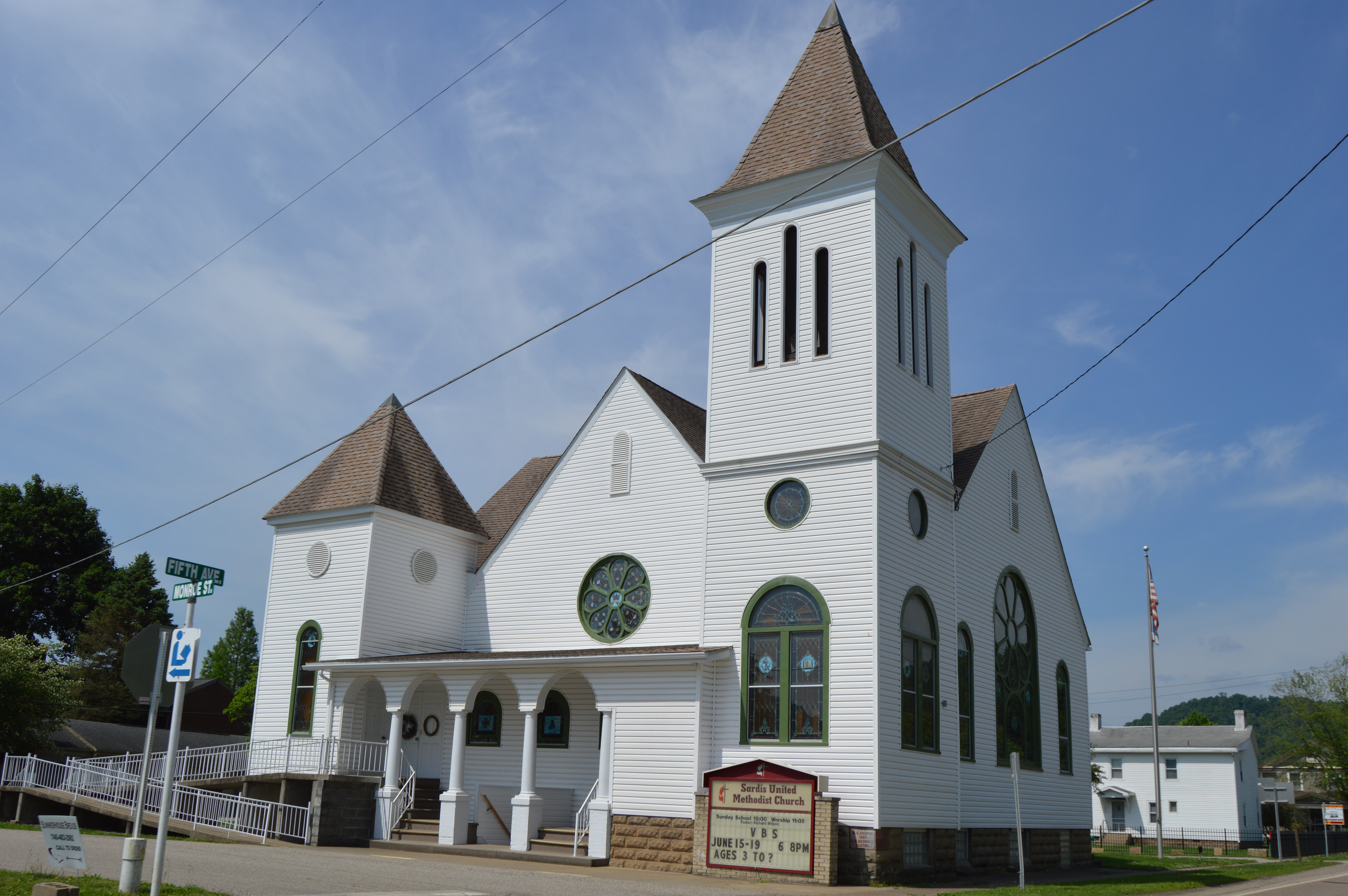 Front and northern side of the Sardis United Methodist Church, located at the junction of Fifth Avenue (State Route 7) and Monroe Street in Sardis, Ohio, United States.